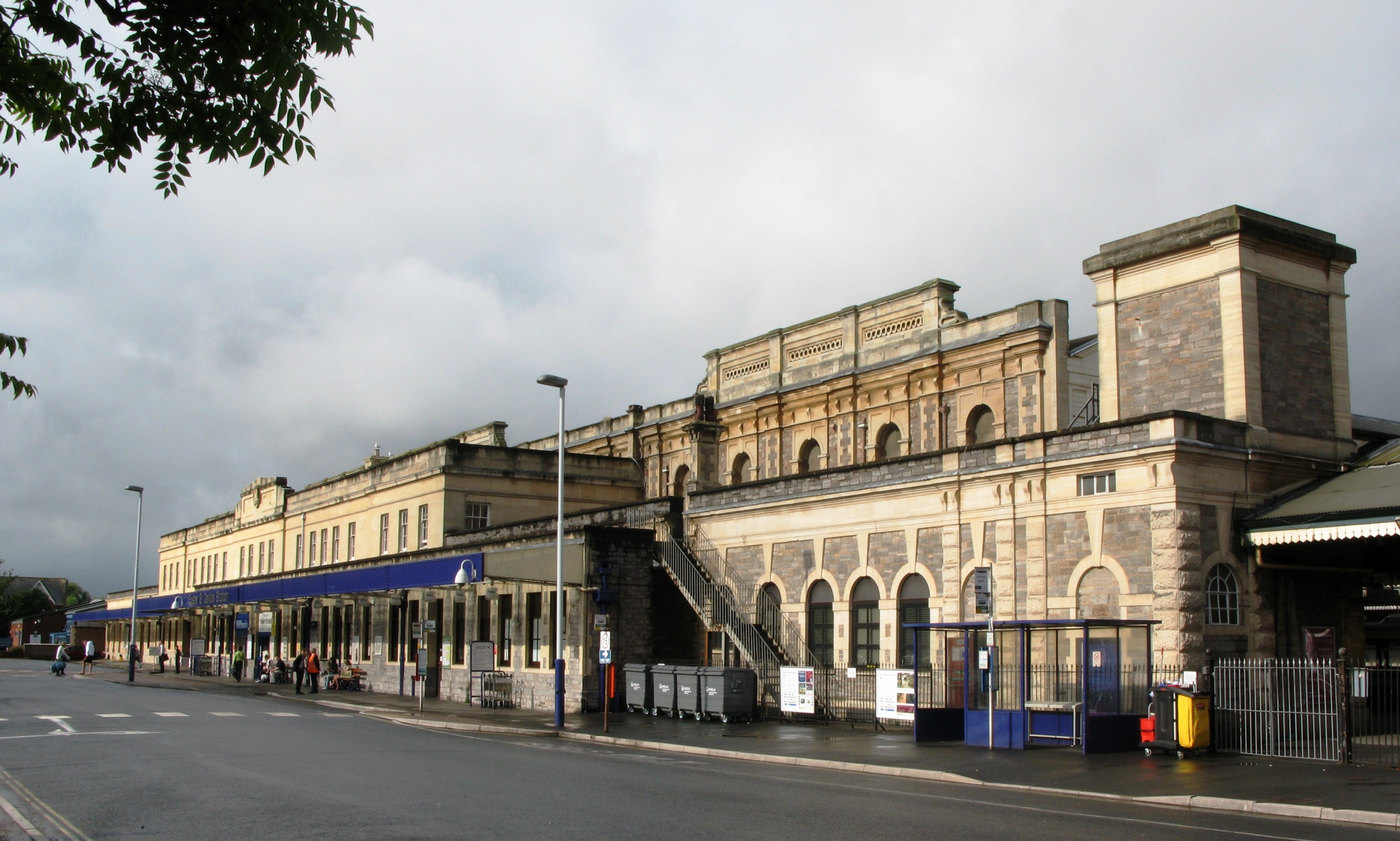 The front of St Davids railway station, Exeter, Devon, England.